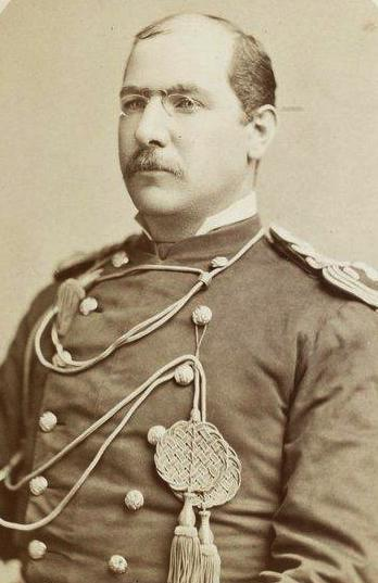 Frederick Schwatka's portrait